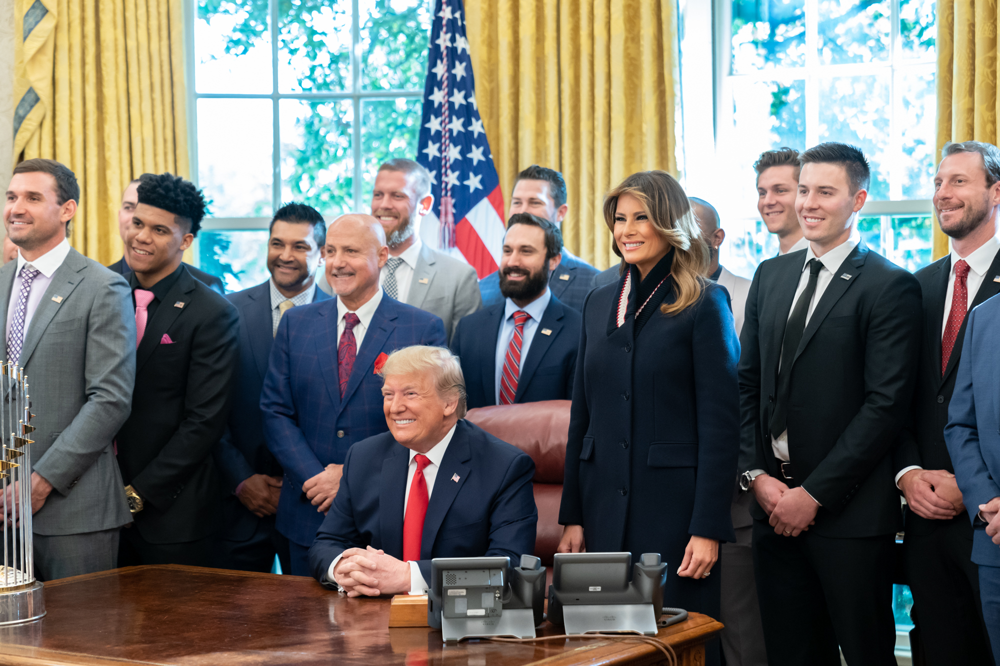 President Donald J. Trump and First Lady Melania Trump pose for a photo with the 2019 World Series Champions, the Washington Nationals Monday, Nov. 4, 2019, in the Oval Office of the White House. (Official White House Photo by Andrea Hanks)